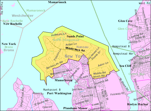 U.S. Census 2000 reference map for Sands Point, New York